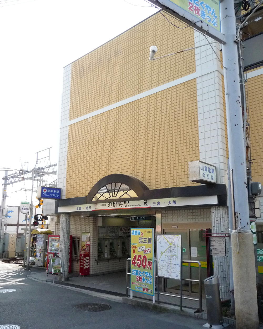 Sumadera Station, Sanyo Electric Railway.